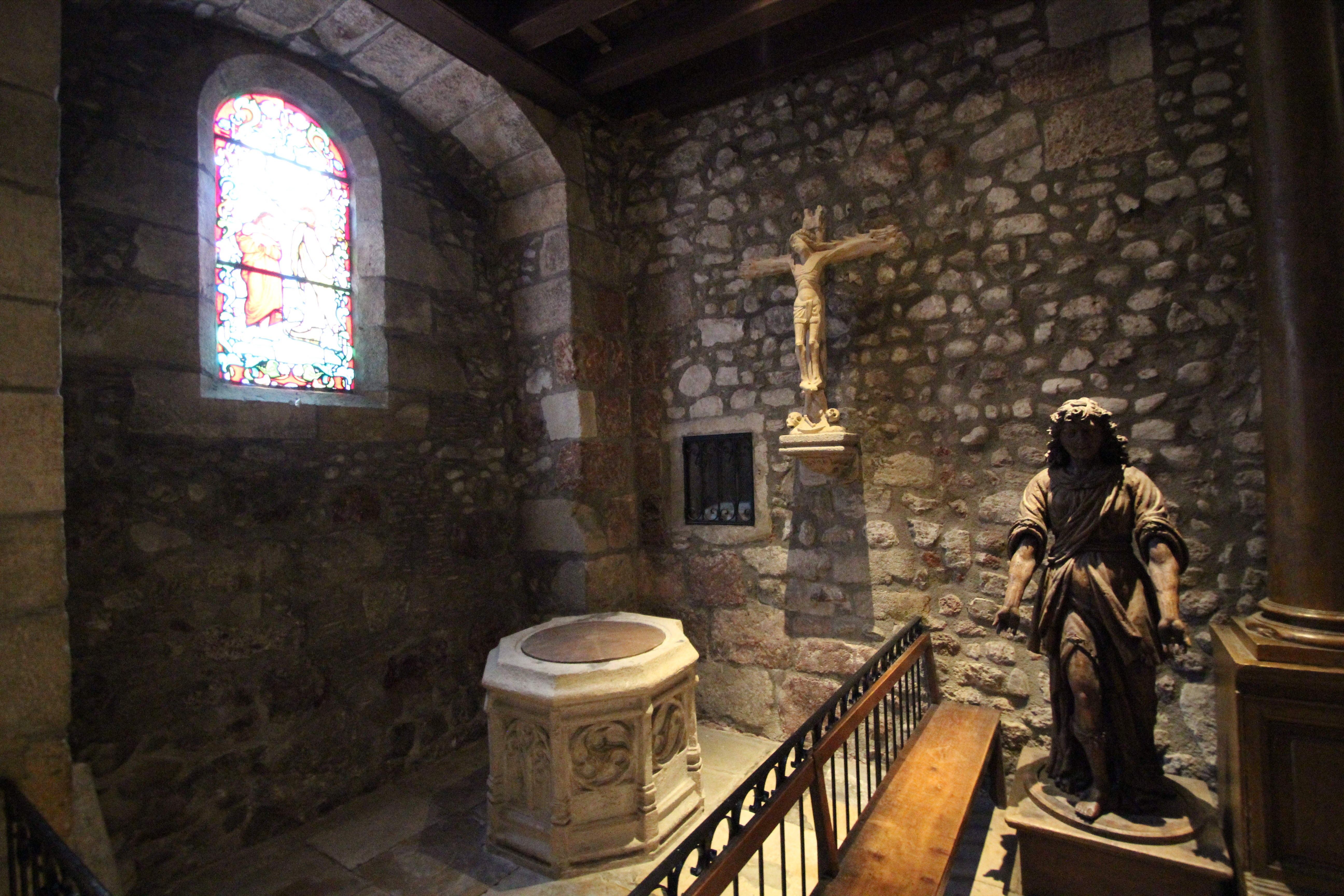 Église Saint-Pierre (St. Peter's Church) in Montluçon, France. . Object location46° 20′ 28.18″ N, 2° 36′ 11.52″ E